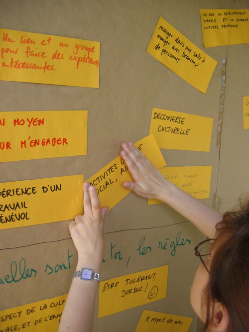 Brainstorming during a training week-end of Service Civil International (SCI) in Switzerland.